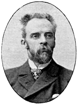 Image scanned from the book "Svenskt Porträttgalleri XX - Arkitekter, Bildhuggare, Målare m.fl. " ("Swedish Portrait Gallery XX - Architects, Sculptors, Painters, ") published 1901